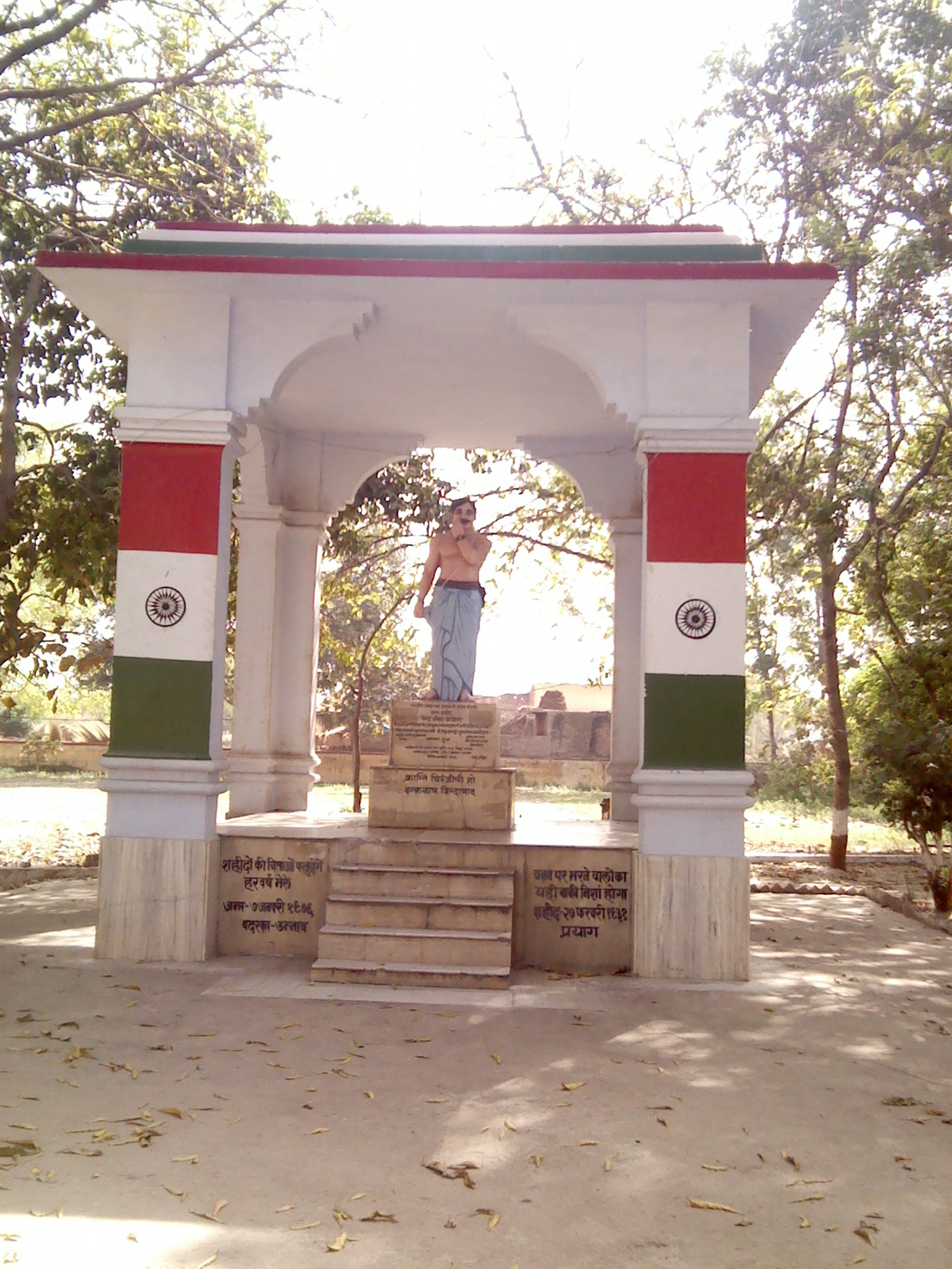 This is a snap taken through my phone. This is claimed to be the birthplace of Chandra Shekar Azad in Badarka, Unnao. Other information Birth Place of freedom Fighter Chandra Shekhar Azad